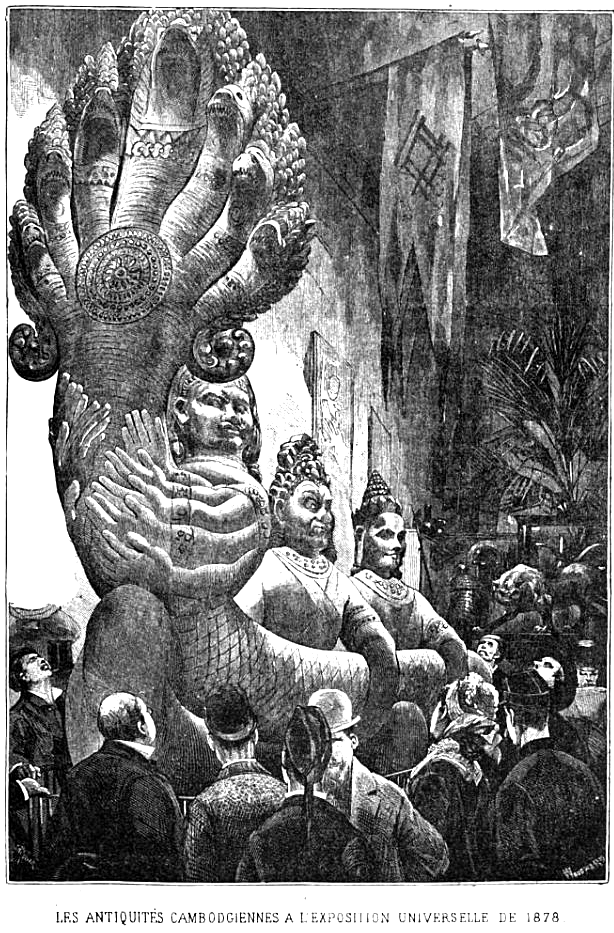 Louis Delaporte's engraving in his 1880 book showing Khmer sculpture he brought back from Cambodia on display in Paris in 1878